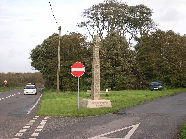 Antony War Memorial. This carved celtic cross commemorates those who died in the First World War in the villages of Antony, St John and Torpoint. The yellow poster on the seat behind the memorial is a notice of application for planning permission to have the memorial moved back away from the roadside and closer to the hedgerow behind.